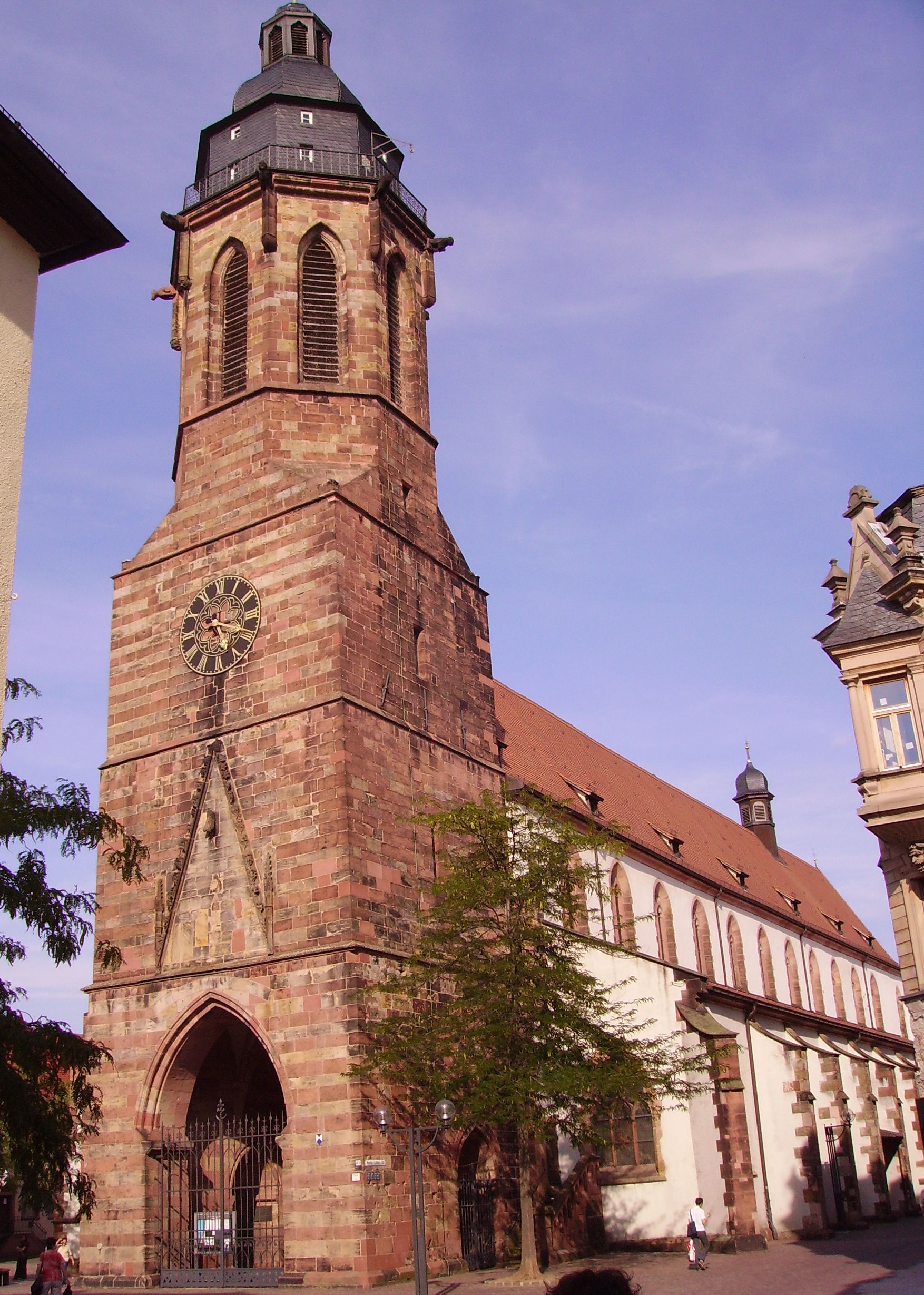 view of Landau in der Pfalz, Germany